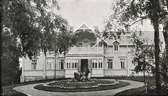 Liuksiala Mansion in Kangasala, next to Tampere, southern Finland